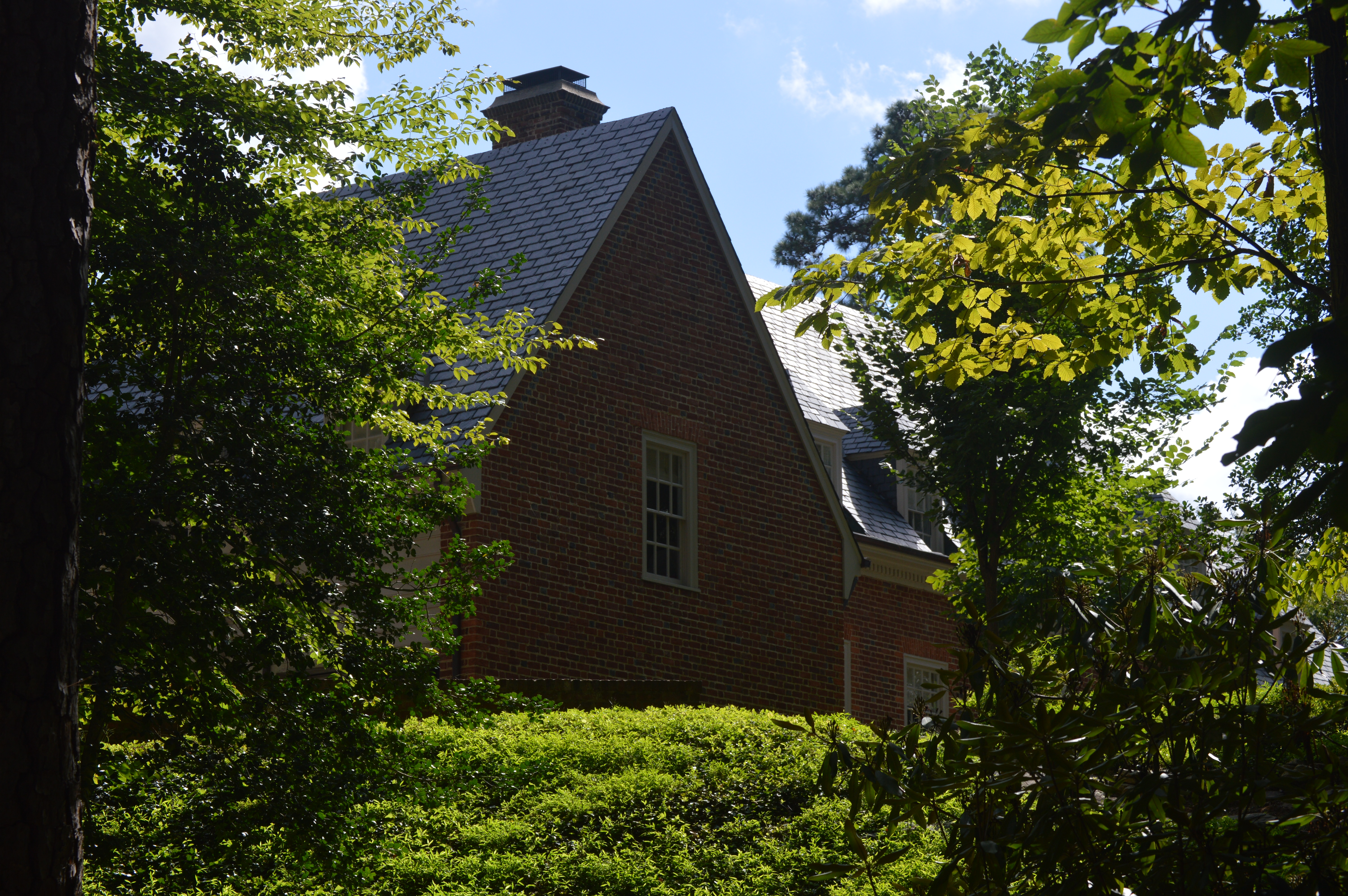 Northeastern side of the Jerman House, located at the end of Rio Vista Lane in Richmond, Virginia, United States. Built in 1936, it is listed on the National Register of Historic Places.